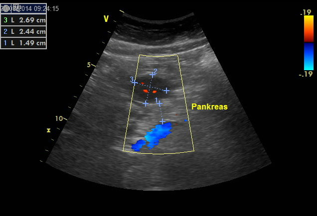 Ultrasound imaging of histologically confirmed Gastrointestinal stromal tumor (GIST, 2-3) anterior to the Pankreas (1). cross-section